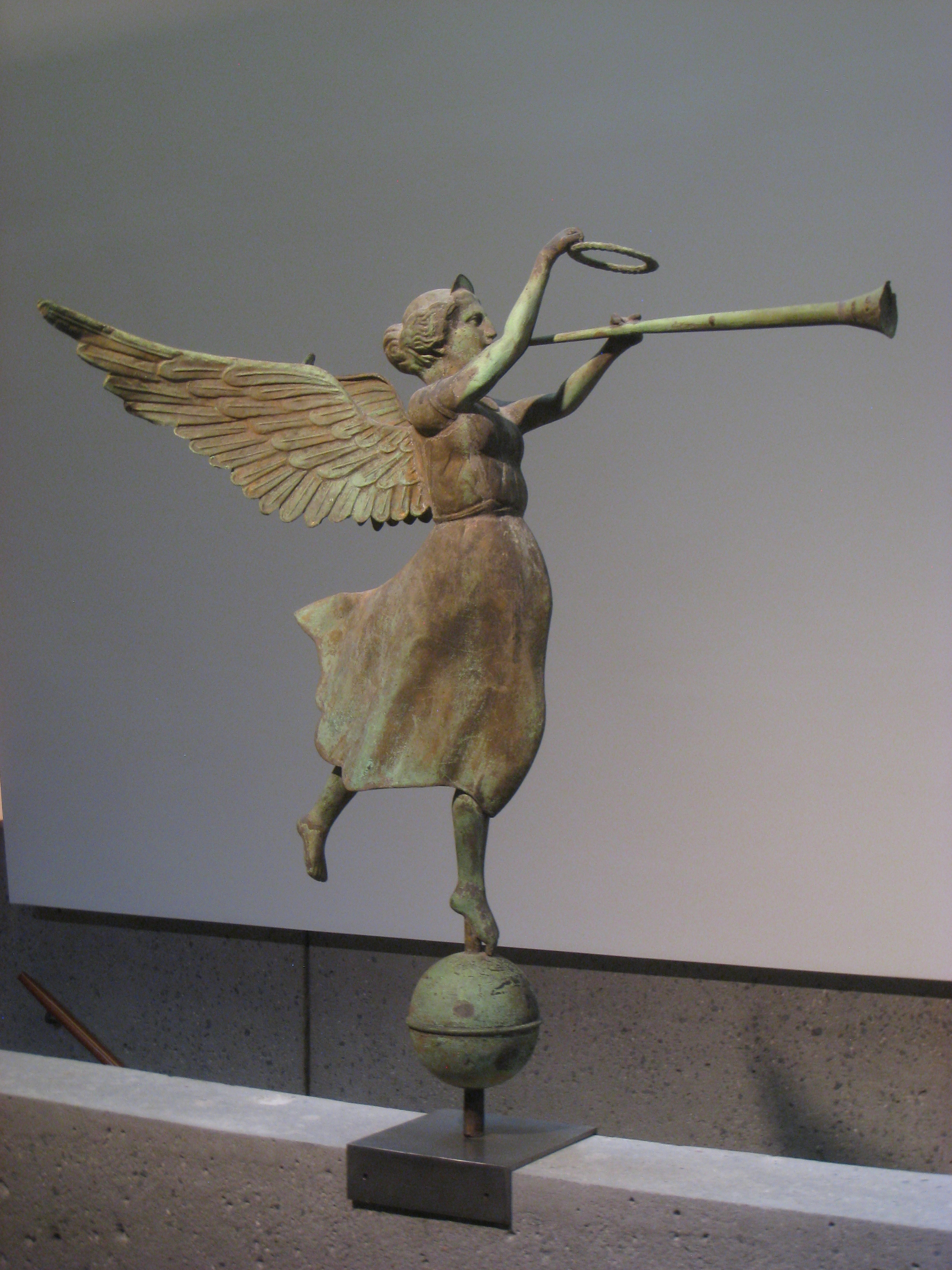 Weathervane of Fame, attributed to Washburne & Co., New York, circa 1890. Exhibited in the American Folk Art Museum, New York City, New York, USA. There were no restrictions on photography in the museum, and this item is old enough so that copyright (if any) has expired.